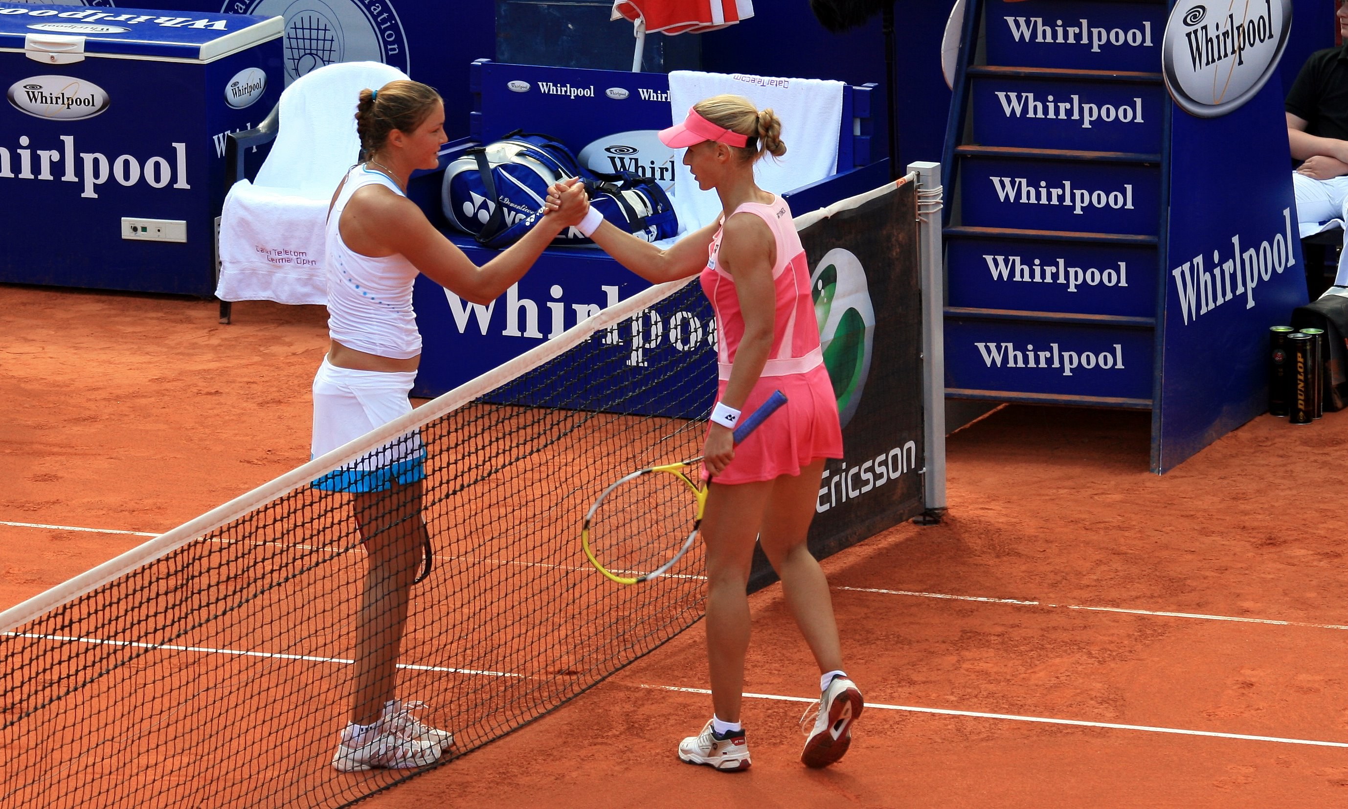 Dinara Safina and Elena Dementieva shaking hands after the final of 2008 Qatar Telecom German Open